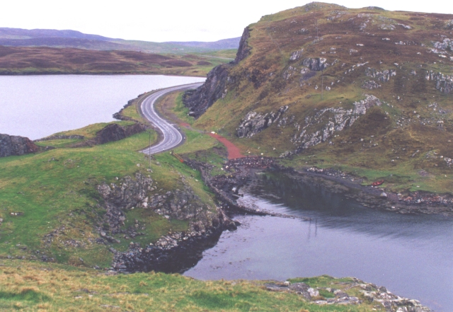 Mavis Grind This is the narrowest land in the British Isles. The inlet on the right is an arm of the Atlantic Ocean; and on the left is Sullom Voe, which is an inlet of the North Sea.